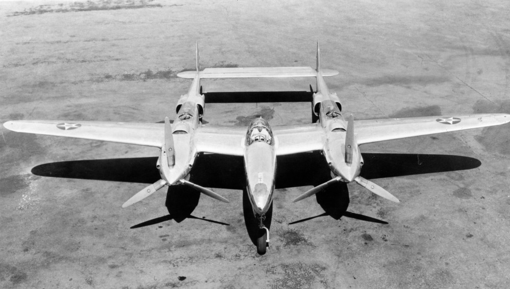 PictionID:40973312 - Title:Lightning Lockheed XP-38 37-457 - Catalog:15_002808 - Filename:15_002808.tif - Image from the Charles Daniels Photo Collection album "US Army Aircraft."----PLEASE TAG this image with any information you know about it, so that we can permanently store this data with the original image file in our Digital Asset Management System.----SOURCE INSTITUTION: San Diego Air and Space Museum Archive